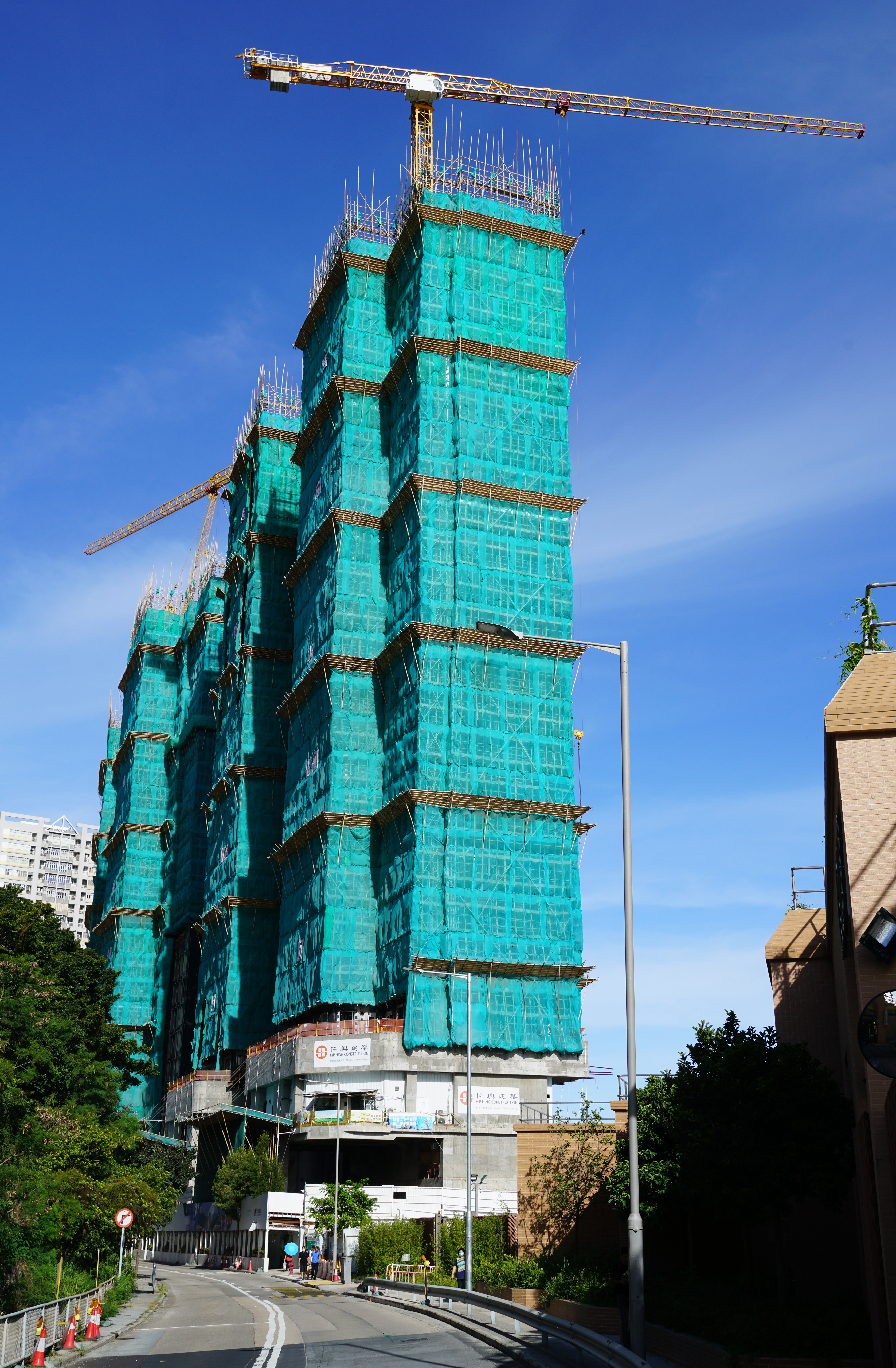 66 Lee Nam Road, Hong Kong.